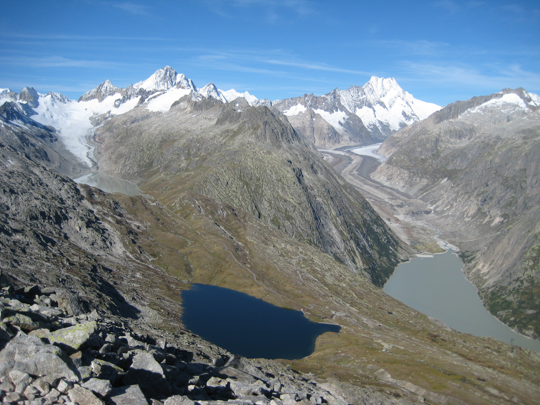 Glaciers and lakes of the Grimsel region (Bernese Alps, Switzerland) seen from Sidelhorn (2764 m): Oberaargletscher and Triebtenseewli on the left, Unteraargletscher and Grimselsee on the right. Among the summits are the Finsteraarhorn (4274 m), the Schreckhorn (4078 m) and the Lauteraarhorn (4042 m)